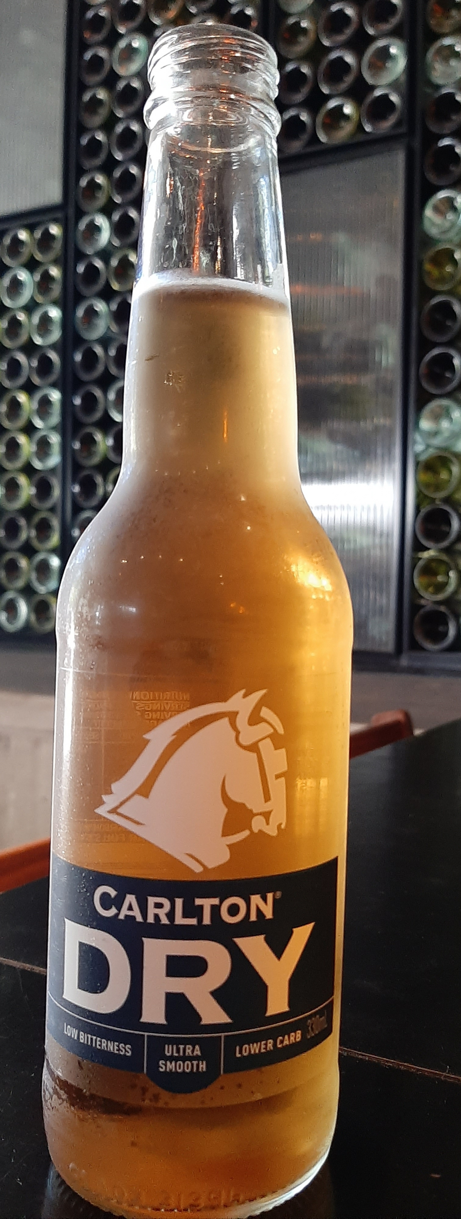 Carlton Dry Bottle. Photo taken at the Crown Casino in Perth WA Australia.